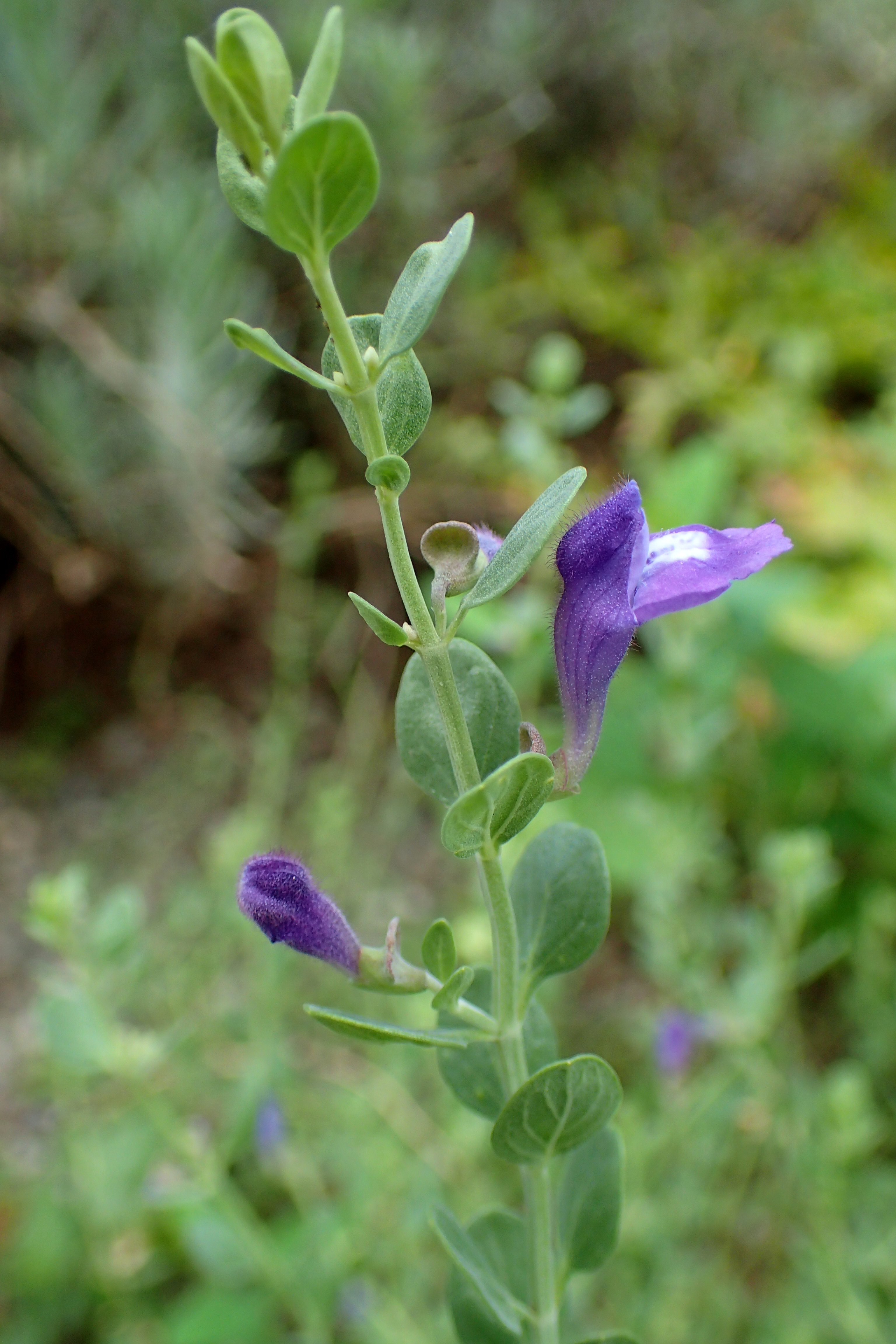 Scutellaria resinosa at the New York Botanical Garden